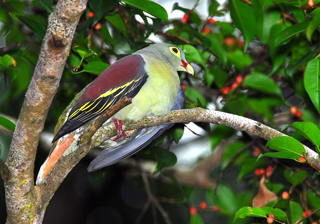 Thick-billed Green Pigeon (Male)(Treron curvirostra)